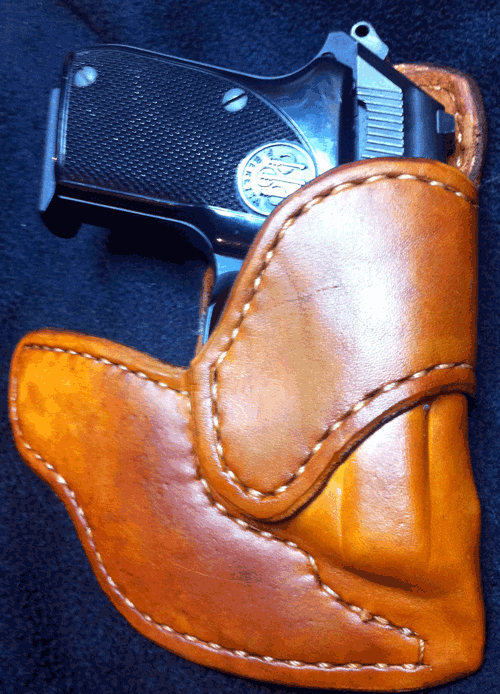 (Here is an example of a leather pocket holster. This leather holster fits the Beretta TomCat. This holster is for concealed carry and is made by White Stag Holsters.